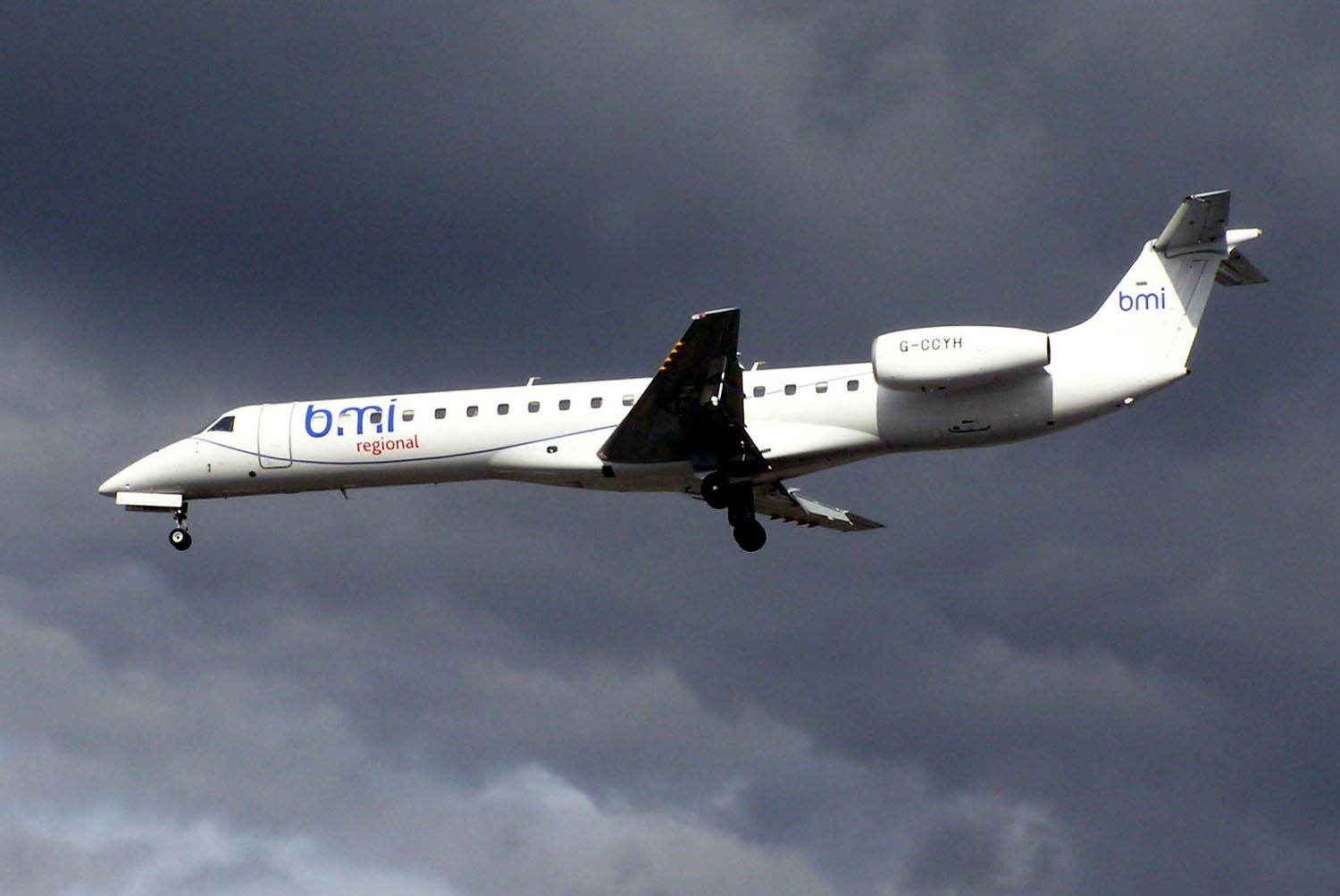 ERJ 145 (G-CCYH) of BMI Regional landing at Heathrow Airport, London.